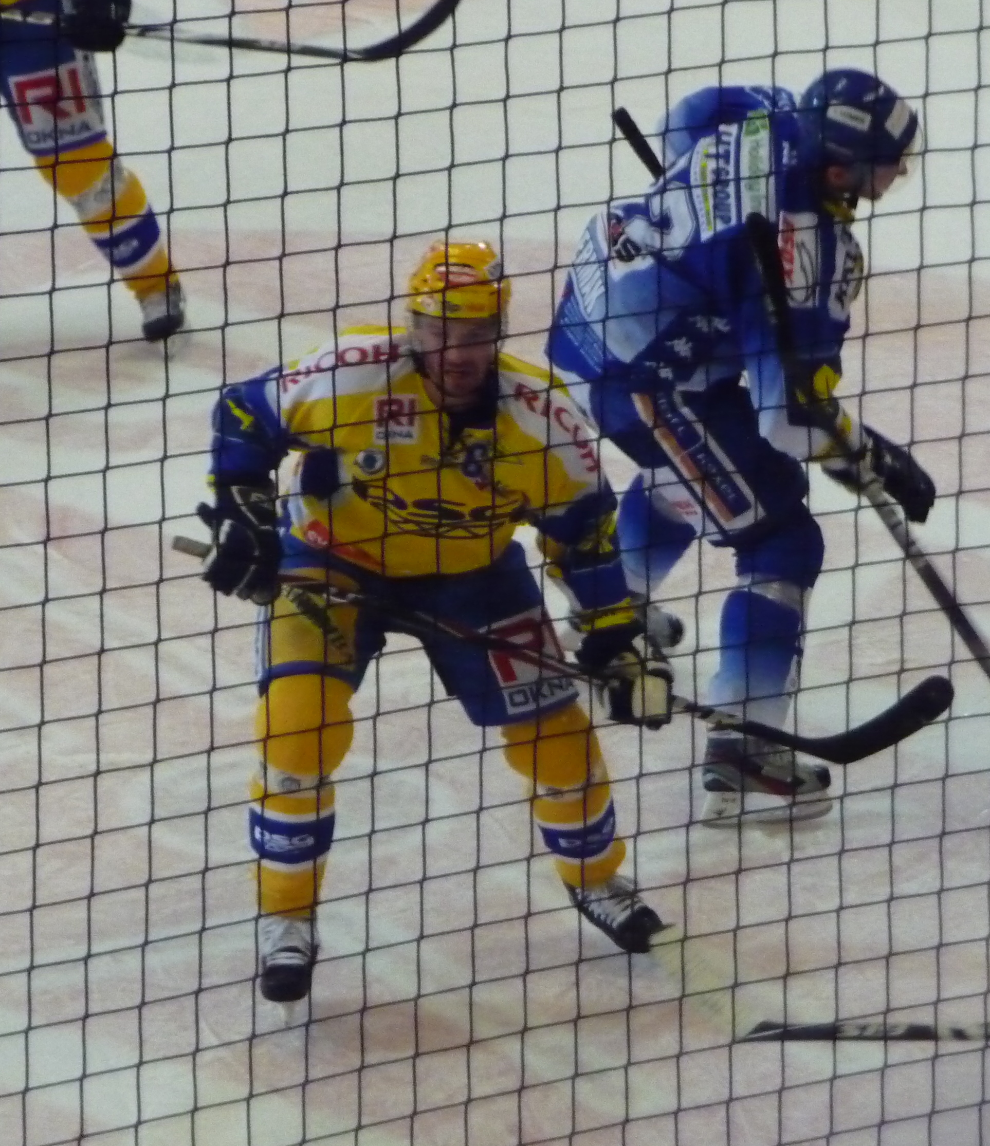 HC Kometa Brno v PSG Zlín, 3rd period, face off Petr Čajánek v Leoš Čermák -10 -5 -3 -2 ◄ ► +2 +3 +5 +10